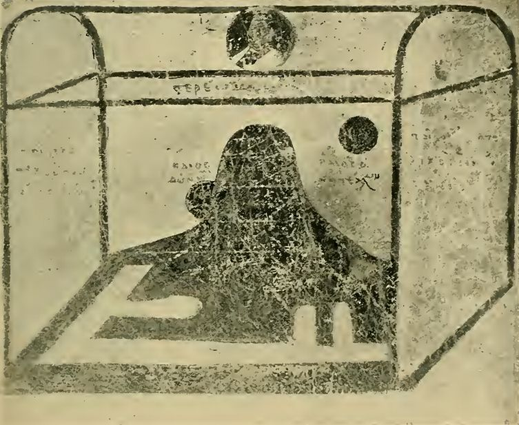 The universe